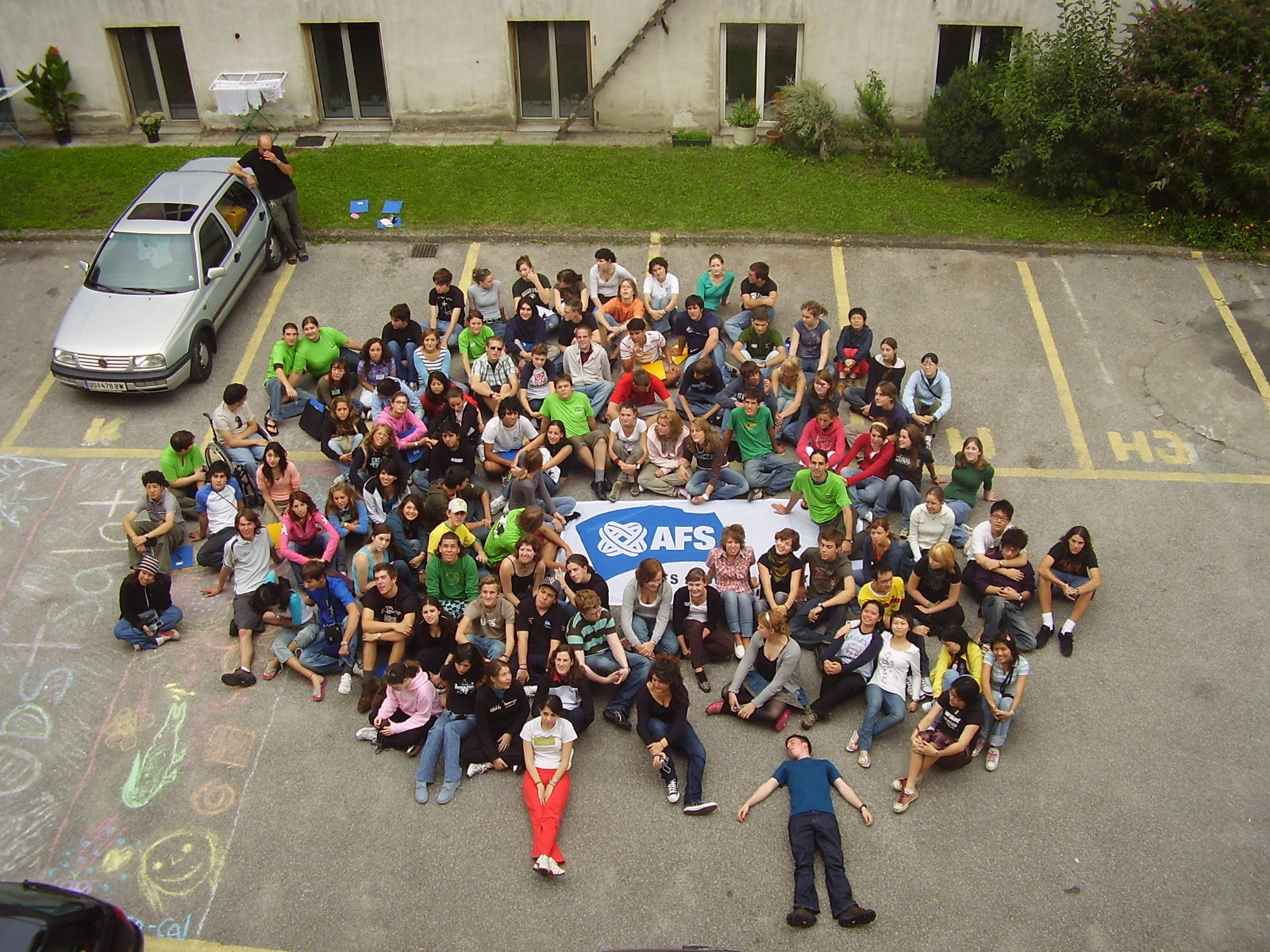 AFS Arrival Camp in Linz in Austria 2006